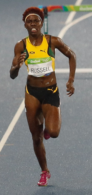 Rio de Janeiro - 400m com barreiras nos Jogos Rio 2016, no Estádio Olímpico. (Fernando Frazão/Agência Brasil)